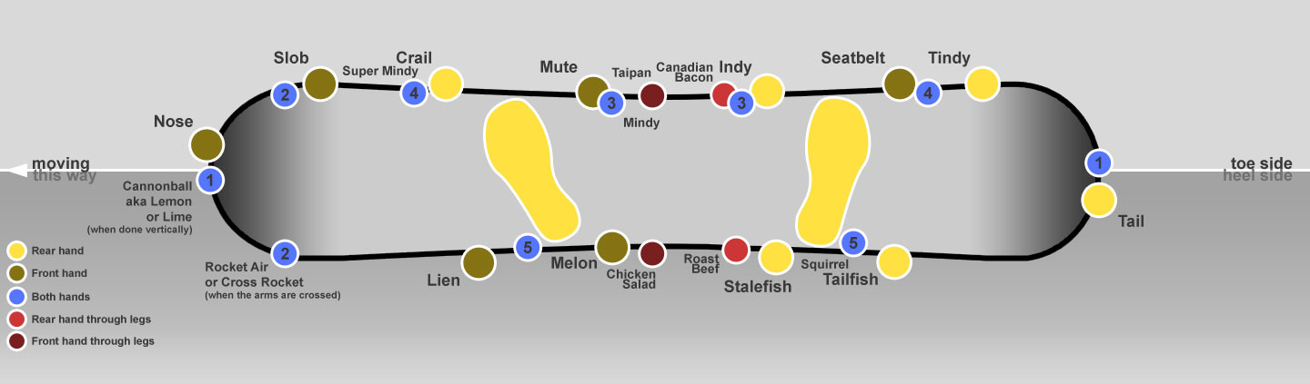 Illustrated diagram of grabbing locations on a snowboard